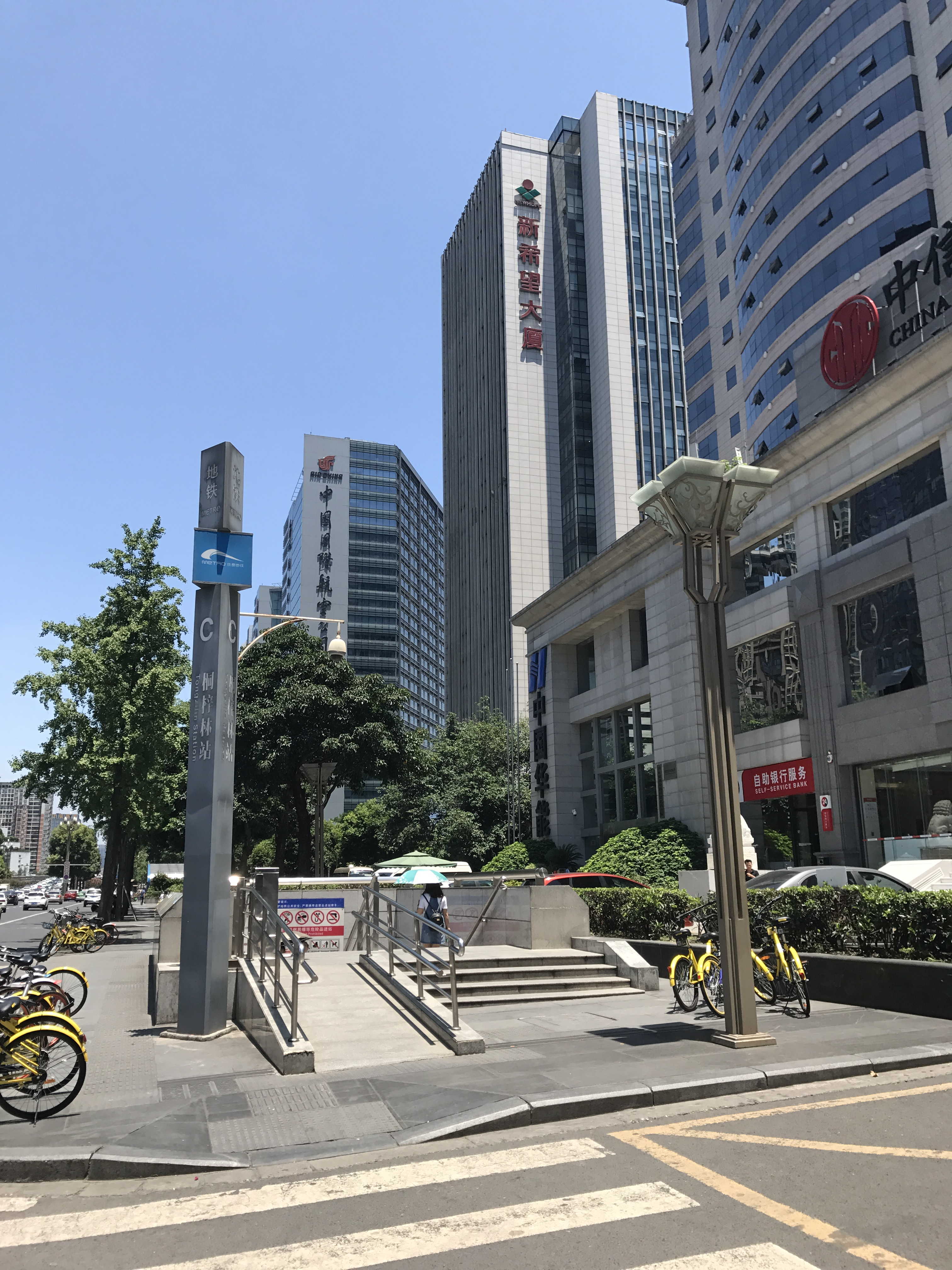 Chengdu Metro Tongzilin Station Entrance C